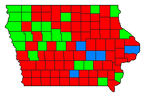 A map of the counties won by each candidate in the Iowa Republican caucuses.